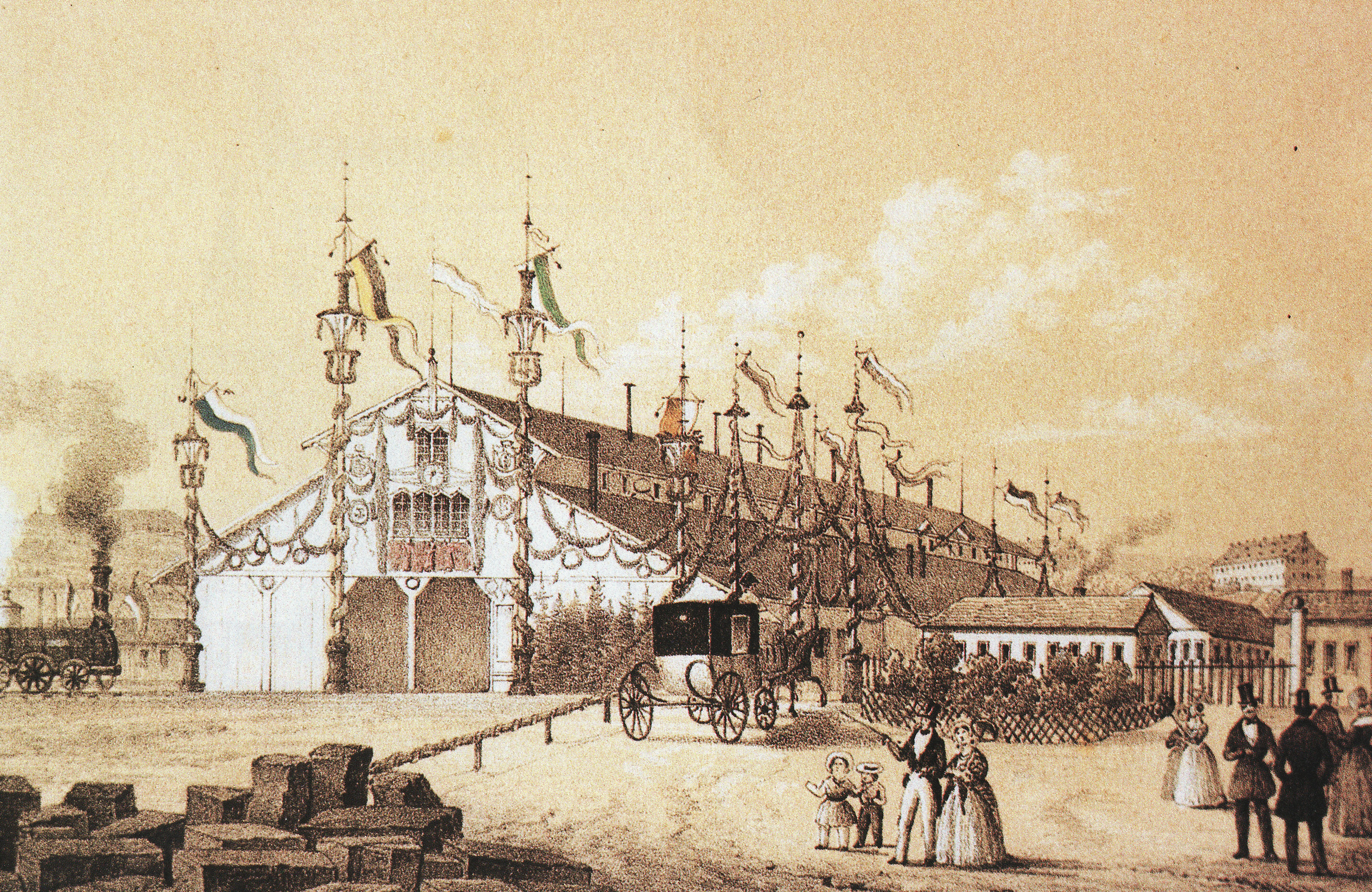 Bohemian Station in Dresden at the opening ceremony of the Saxony-Bohemian railway at April 6th/7th 1851. Colored Lithographie